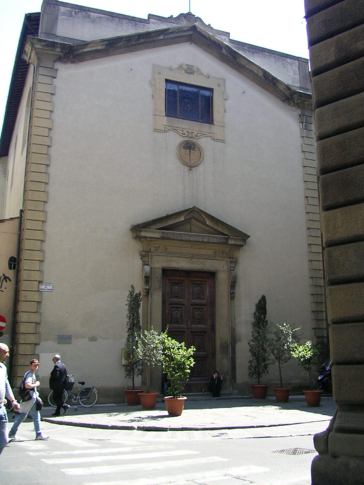 San Michele in Visdomini church, front view in Florence, Italy